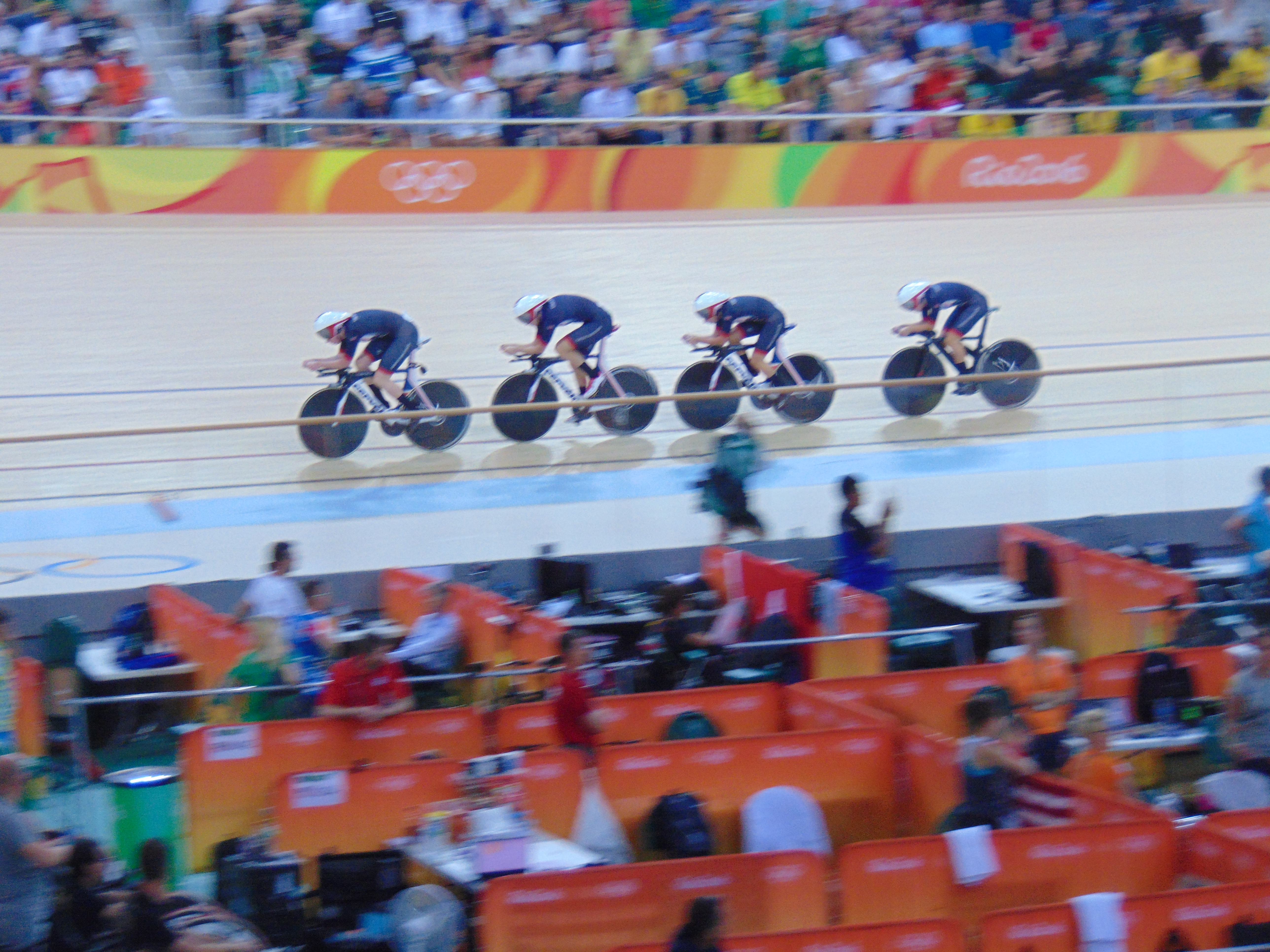 Rio 2016 - Track cycling 13 August (CT004)